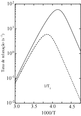 Ilustração da evolução das taxas de relaxação spin rede (T-1) com inverso da temperatura.